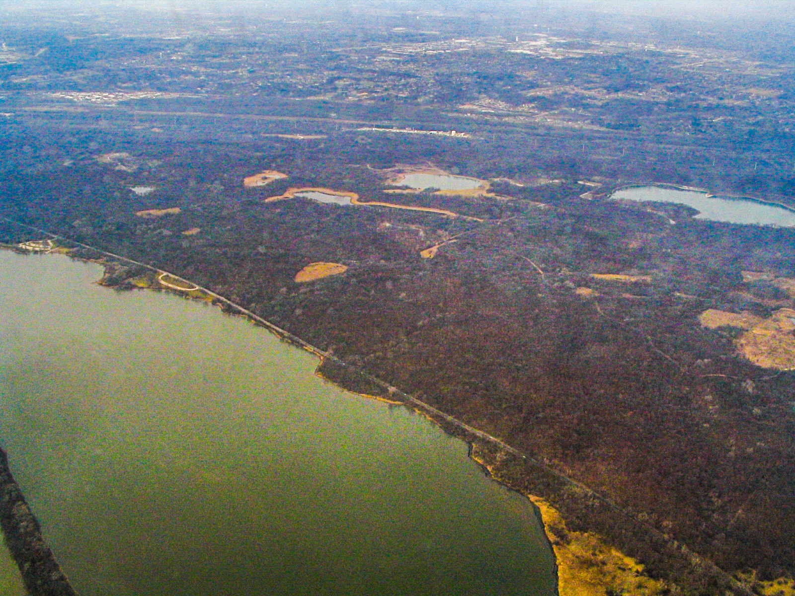 Saganashkee Slough, a marshy area near Palos Hills, Illinois and just between the Chicago Sanitary & Ship Canal and the Calumet Channel